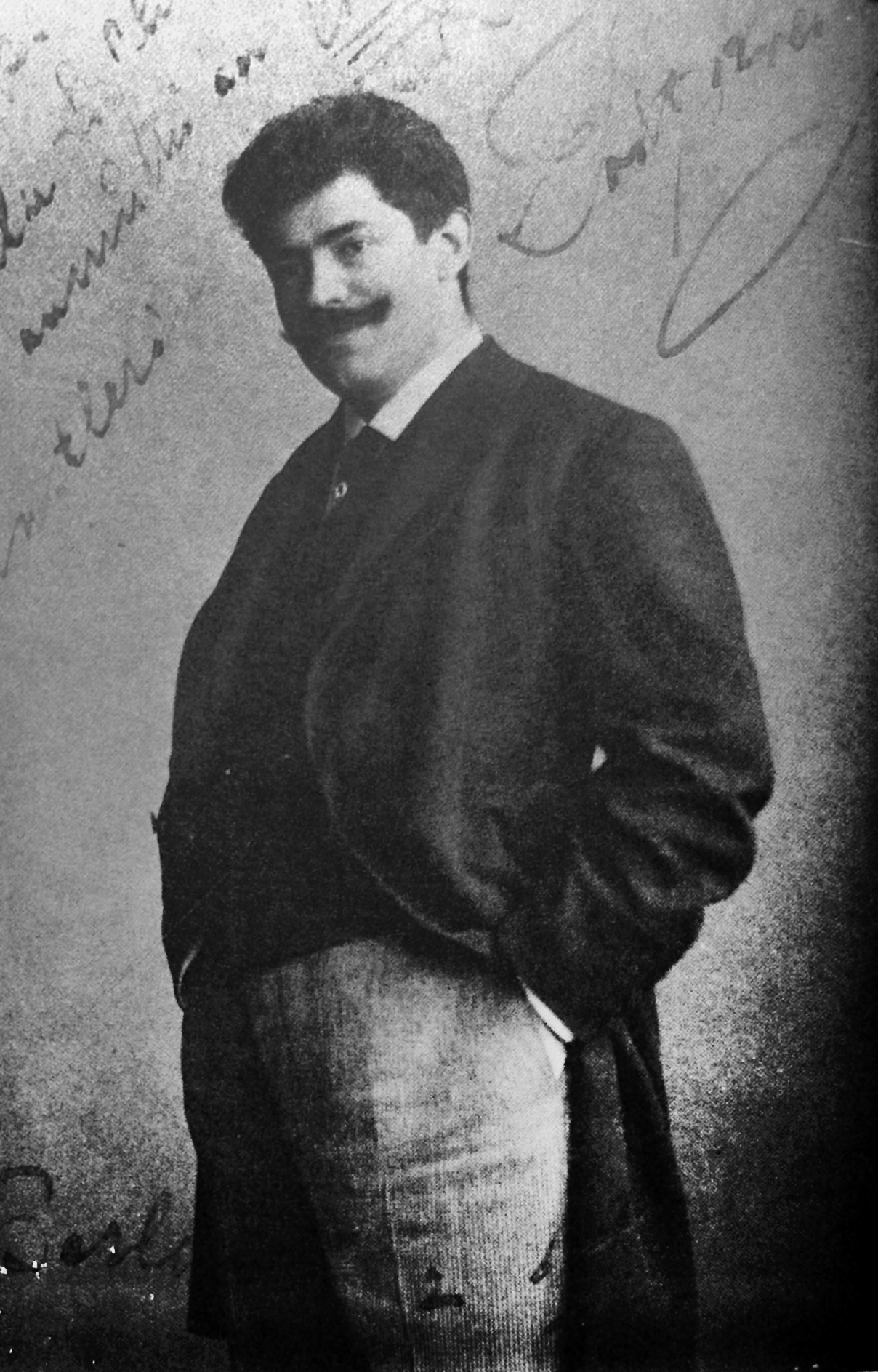 Fritz Kreisler at the end of 19th century